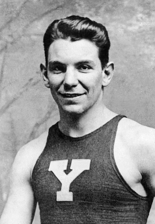 Portrait Of The American Boxer Eddie Eagan (1897-1967) Around 1920. Eddie Eagan Hold A Special Spot In Olympic History. Indeed, He Is The Only Athlete To Have Won A Gold Medal In Both The Summer And Winter Games, As A Member Of The Four-Person Bobsled Team.